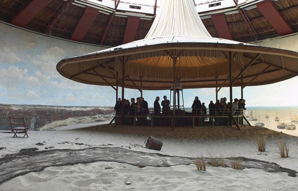 Panorama Mesdag